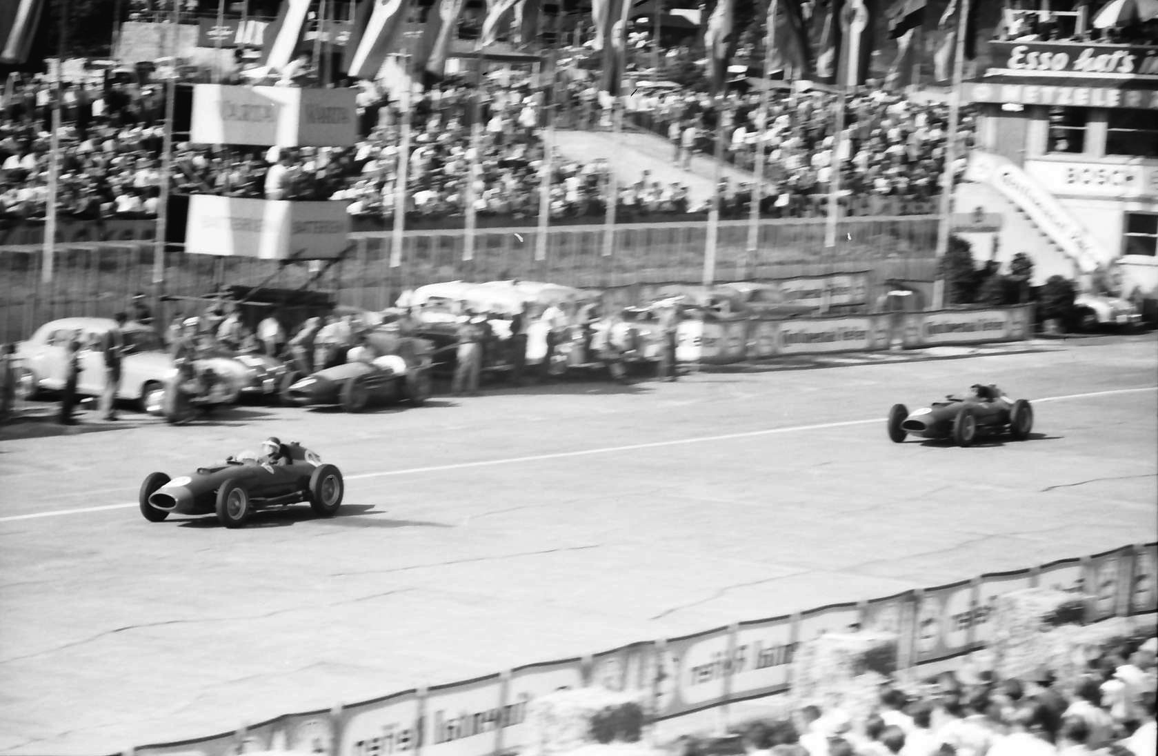 The Ferrari 801 cars of Mike Hawthorn (leading) and Peter Collins pass the retired Maserati 250F car of Paco Godia, in the latter stages of the 1957 German Grand Prix at the Nürburgring, West Germany. Hawthorn and Collins would eventually finish the race in second and third positions, respectively, after having been caught and passed by Juan Manuel Fangio.